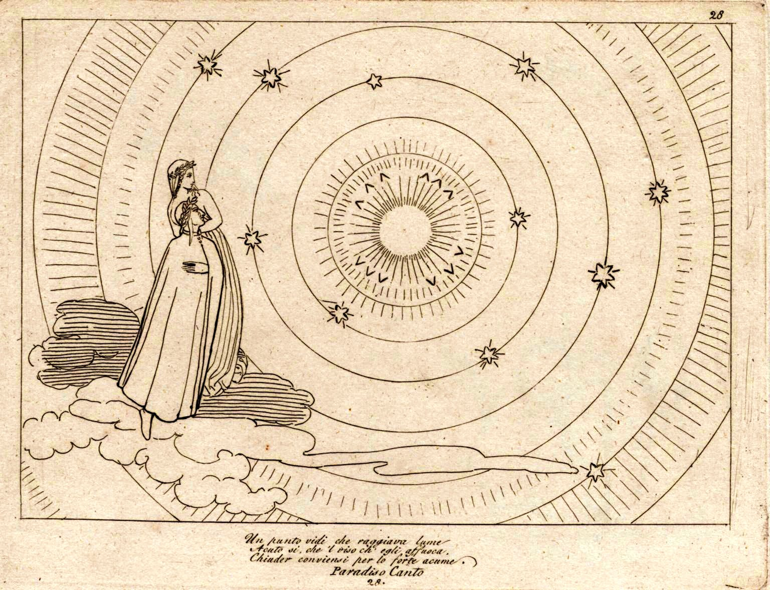 Engraving: Un punto vidi che raggiava from Divina Commedia by Dante - illustration designed by John Flaxman, engraved by Tommaso Piroli.